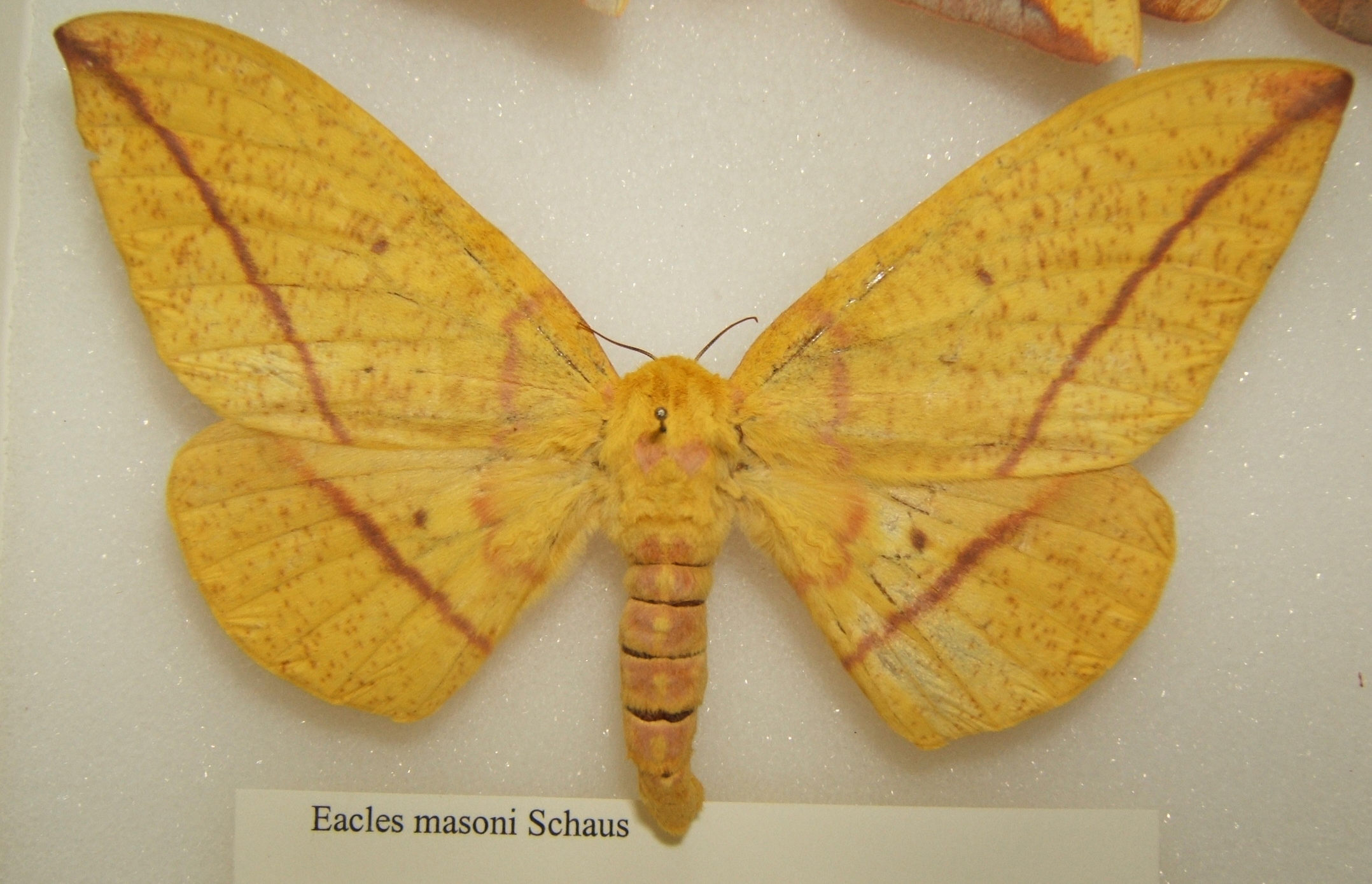 Eacles masoni adult female taken by Shawn Hanrahan at the Texas A&M University Insect Collection in College Station, Texas.